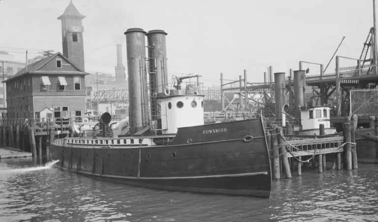 PH Coll 794.37 1909: A powerful steel fireboat, the DUWAMISH, 309 tons, 113 feet in length, and fitted with 1,100 horsepower steam engines was built at Richmond Beach for the Seattle Fire Department, having been designed by McAllister & Bennett and built by the Richmond Beach Shipbuilding Co. at a cost of more than $125,000. As a result of neglect and failure to provide proper maintenance, the old wooden fireboat SNOQUALMIE has been found by Inspectors Whitney and Turney of the Steamboat Inspection Service to be in unseaworthy condition, and she was put out of service for many months following the arrival of the DUWAMISH, during which time she was completely overhauled. The DUWAMISH was placed in charge of Capt. Arthur G. Bennefiel, with Lt. Harmon Leighton as pilot. Serving for over 75 years (and undergoing numerous modifications, including replacement of her steam engines), the DUWAMISH was replaced by the CHIEF SEATTLE in the Seattle Fire Department in 1985. The vessel is currently (2009) preserved as a National Historic Landmark by the Puget Sound Fireboat Foundation in Seattle. (Sources: 1) Newell, Gordon, ed. "The H.W. McCurdy Marine History of the Pacific Northwest." Seattle: The Superior Company, 1966. 2) Subjects (LCSH): Duwamish (Fireboat); Fireboats--Washington (State)--Seattle; Piers & wharves--Washington (State)--Seattle